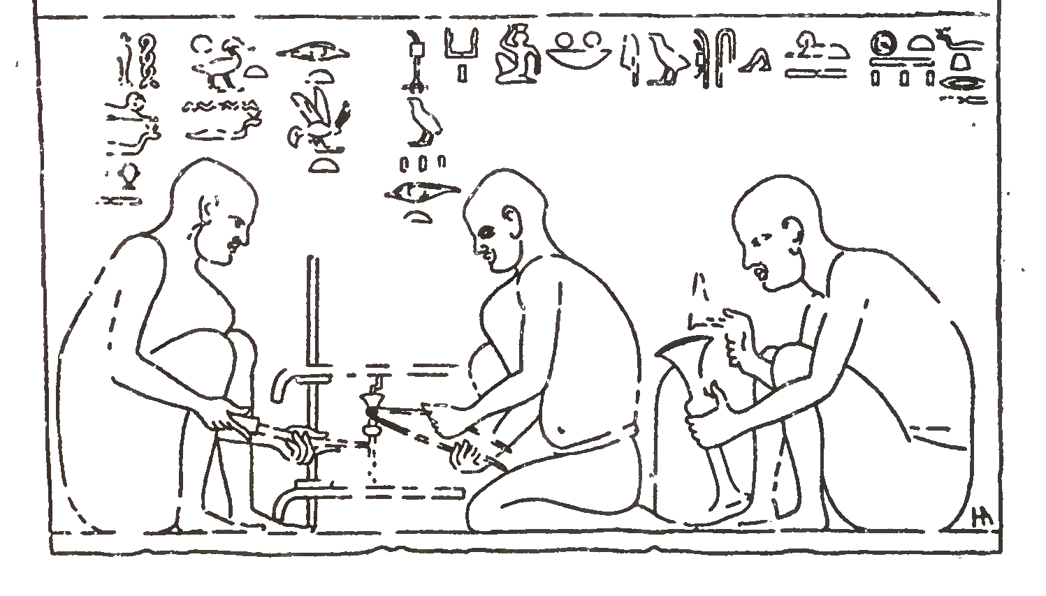 lathe from the tomb of Petosiris, around 300 BC